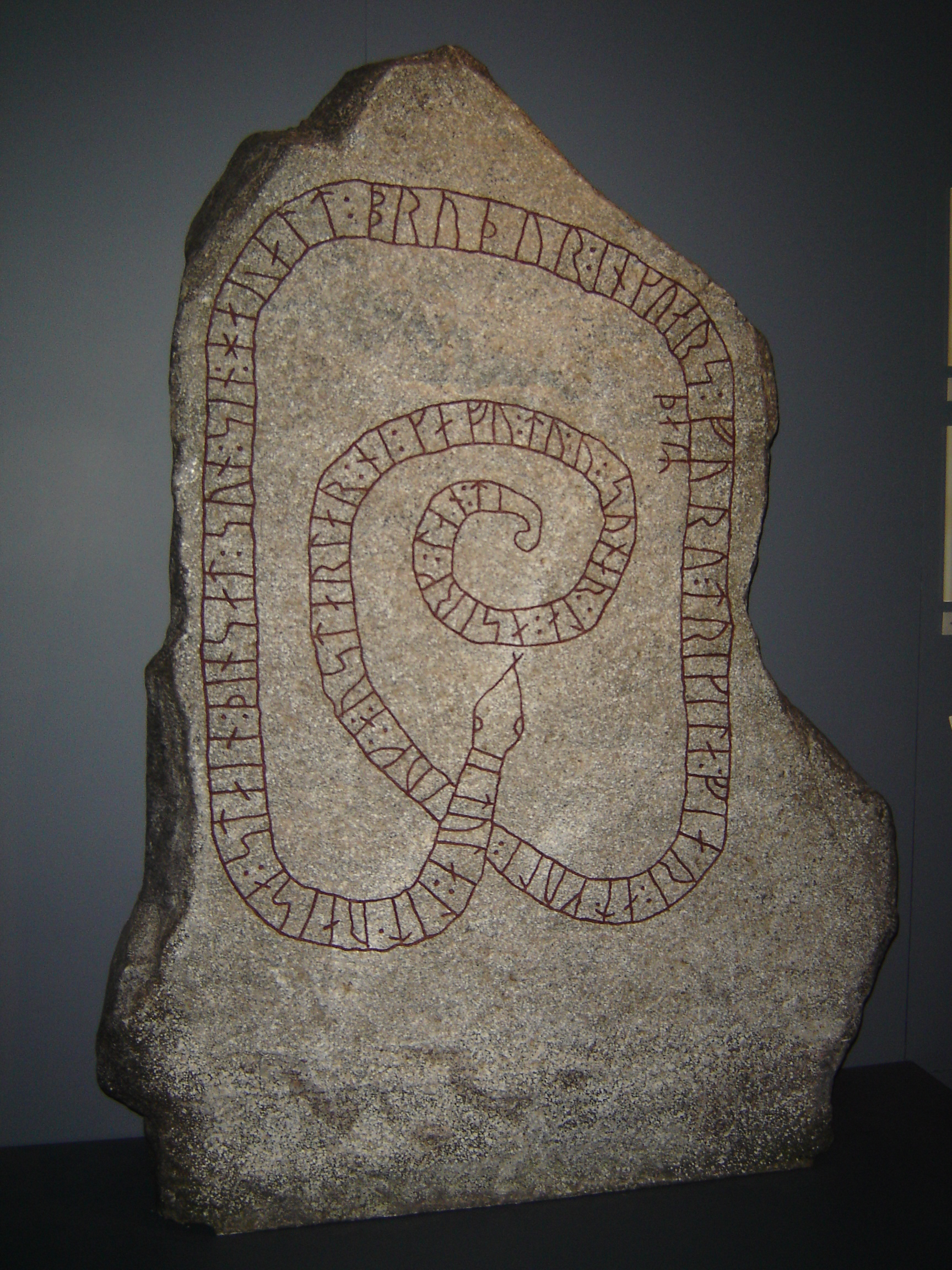 A replica of a Viking runestone (SÖ 179), raised circa 1040 at Gripsholm Castle, commemorating a member of an illfated expedition to the Middle East (Serkland).